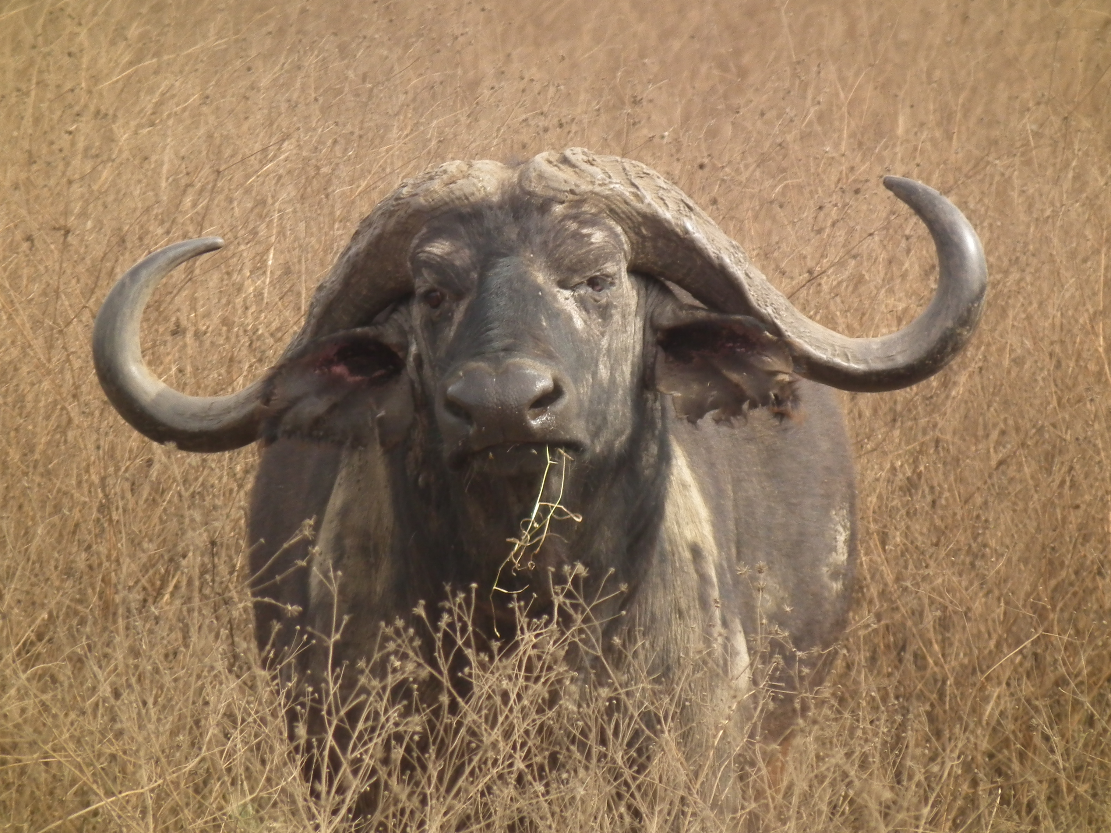 The African buffalo, affalo, M'bogo or Cape buffalo (Syncerus caffer) is a large African bovine. Photo taken in Tanzania